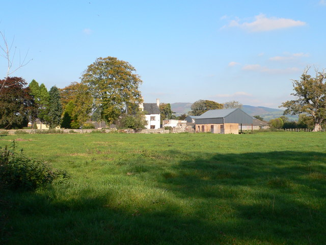 Plas Llanynys Farm An early 19th-century farmhouse of rendered stone and slated roof, with brick and limestone outbuildings and a stone-walled yard.